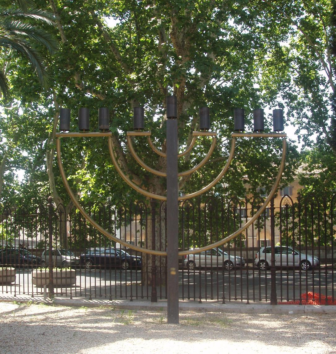 Chanukkiyah ebraica at Tempio Maggiore di Roma. Picture taken by David Shay